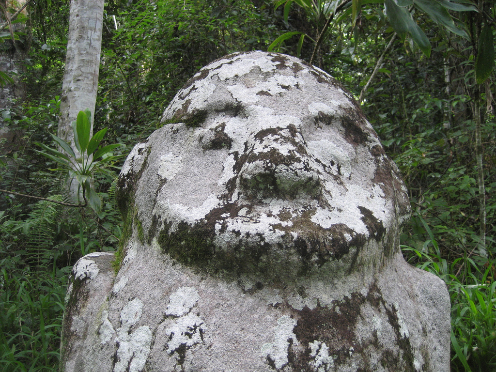 Tokalalaea Megalith, Central Sulawesi, Indonesia